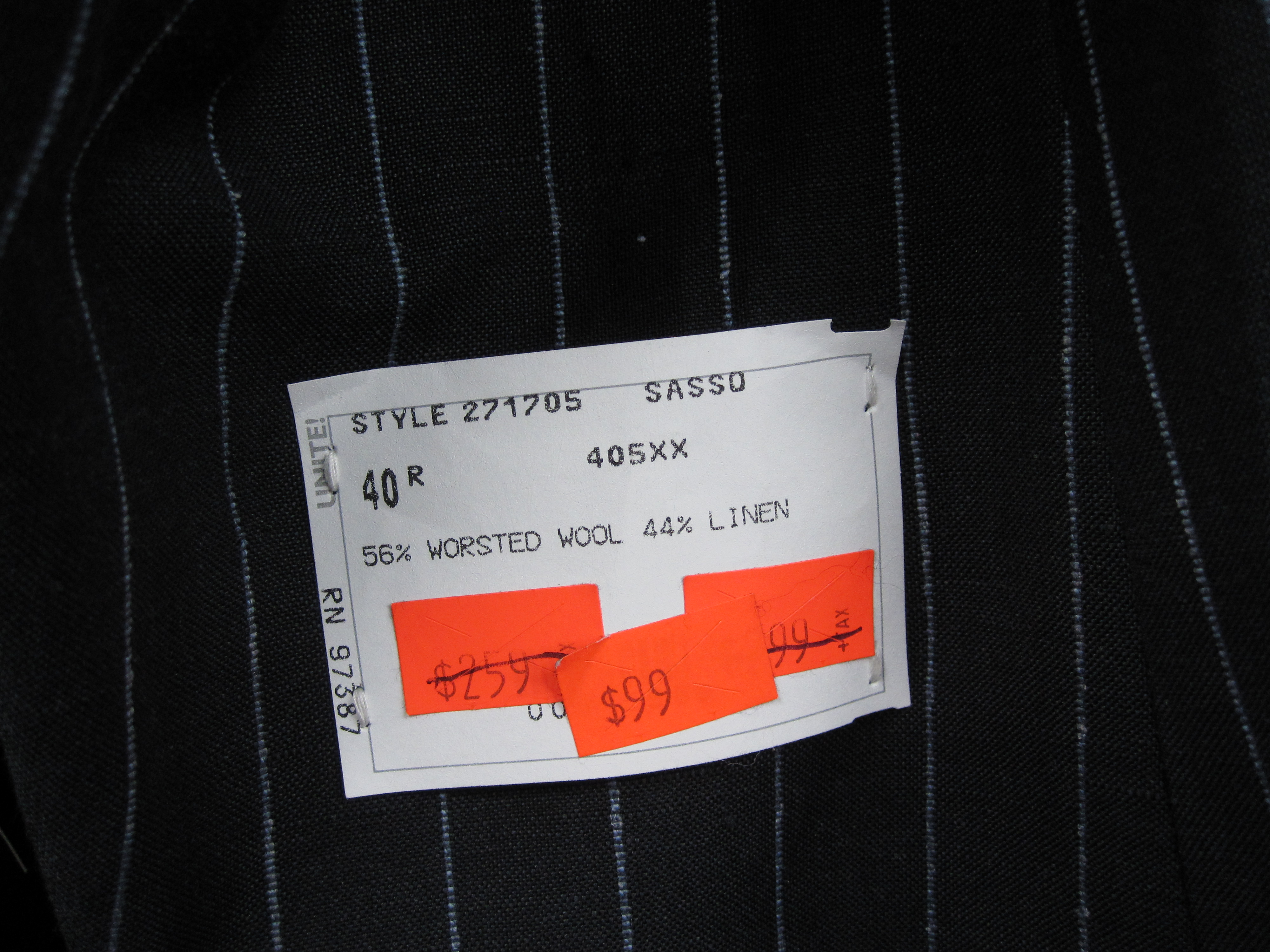 Fabric contents label a man's suit reveals that it is shatnez